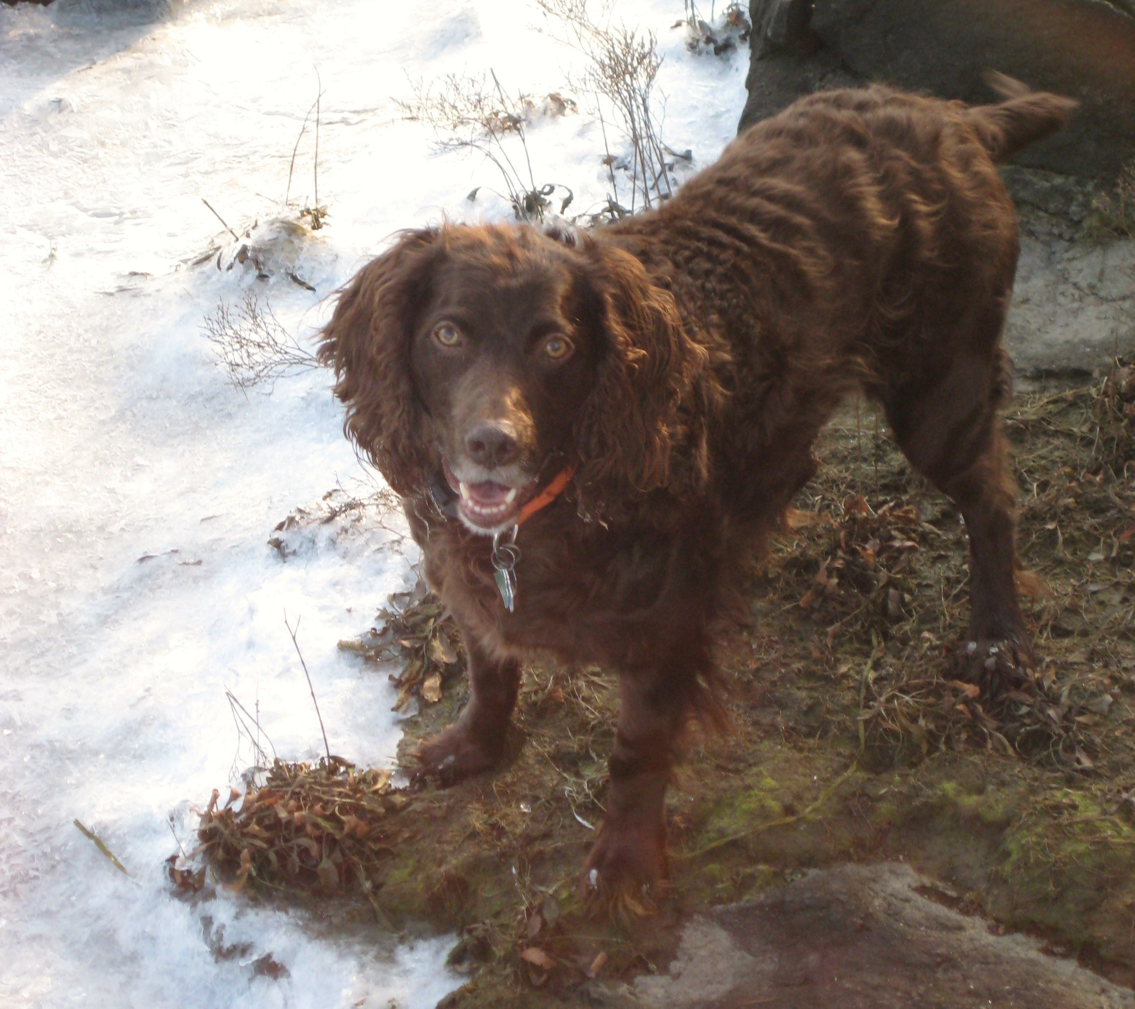 A brown Boykin Spaniel.